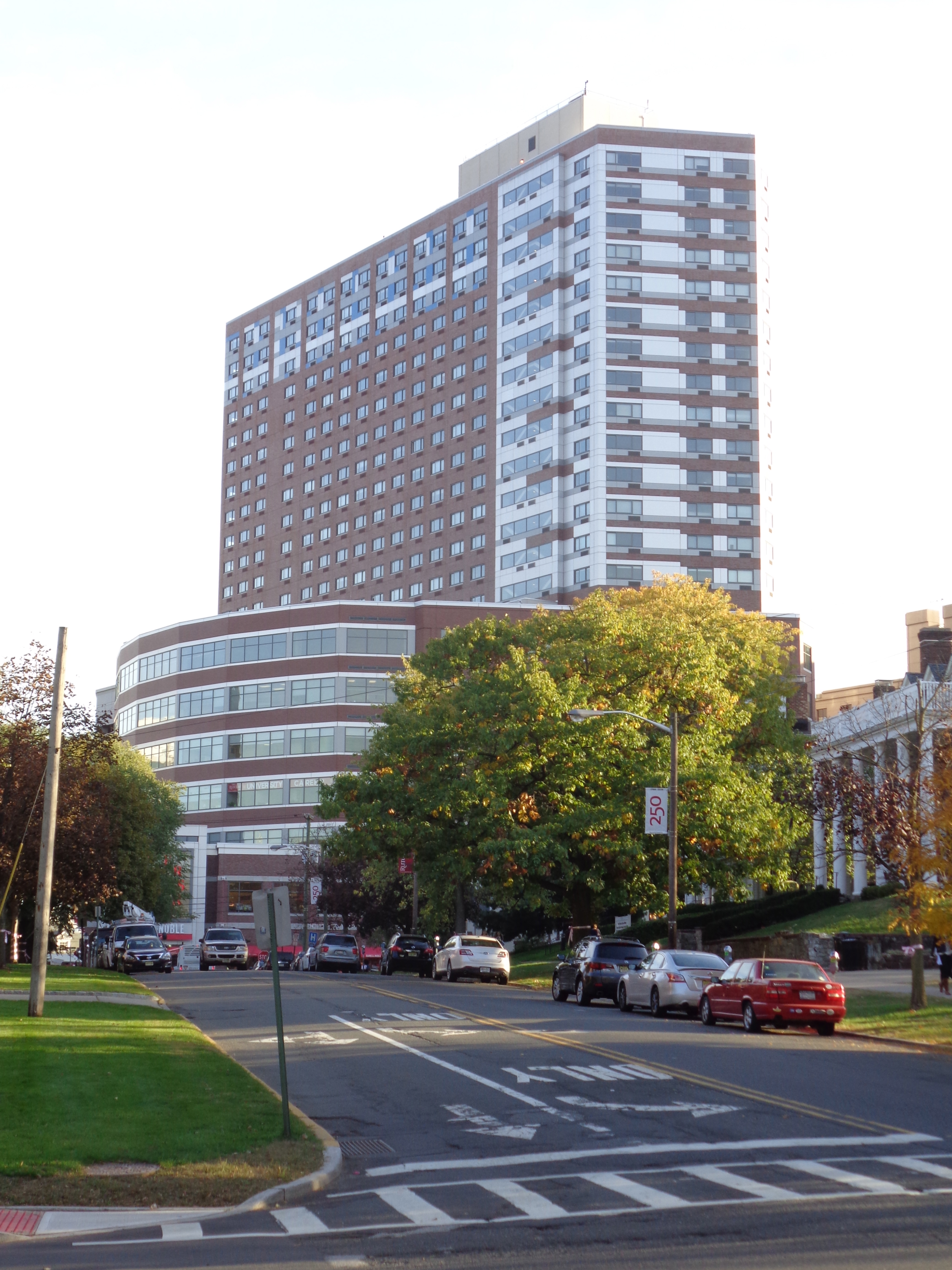 The Gateway/Vue at New Brunswick Station looking from Rutgers University